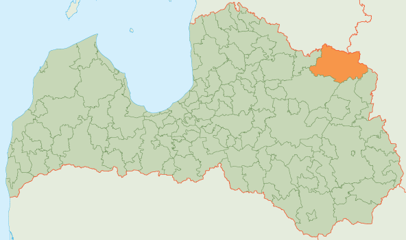 Map of Alūksne Municipality